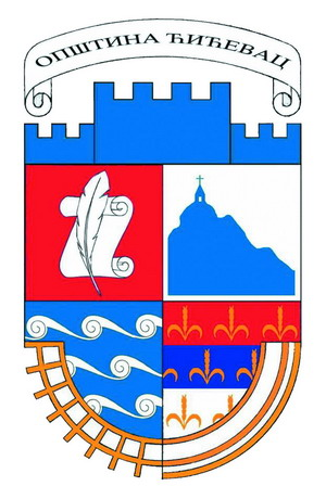 Coats of arm of Ćićevac, Serbia/Blason de la ville de Ćićevac en Serbie